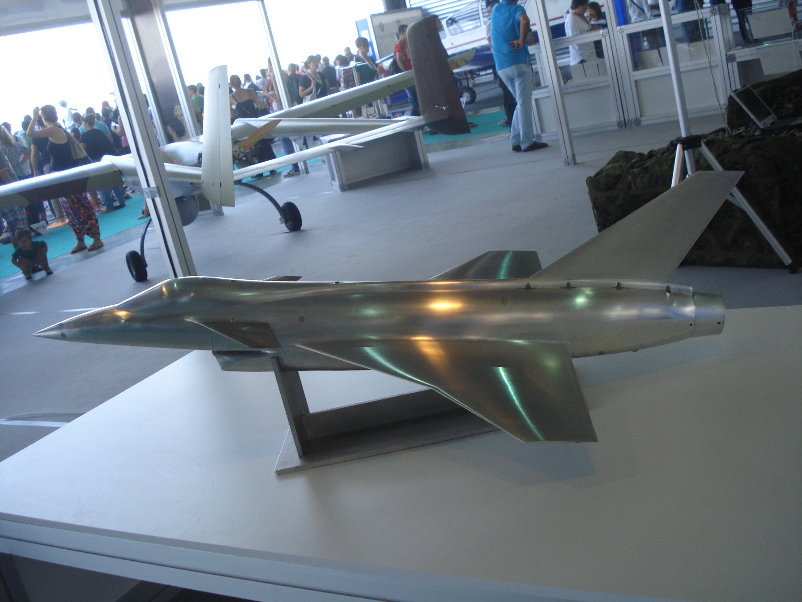 Ex Yugoslav project: New Airplane - model. Picture taken at Batajnica Airshow - 02.09.2012., Belgrade, Serbia.